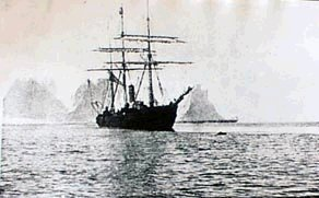 Cañonera Uruguay en 1874.